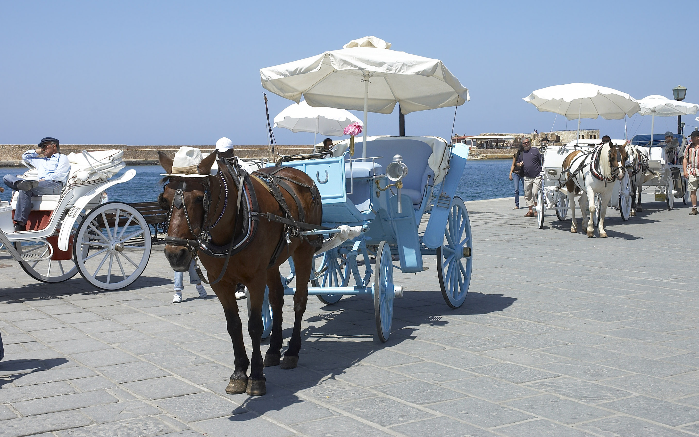 Horse and carriage at the Venician harbour of Chania